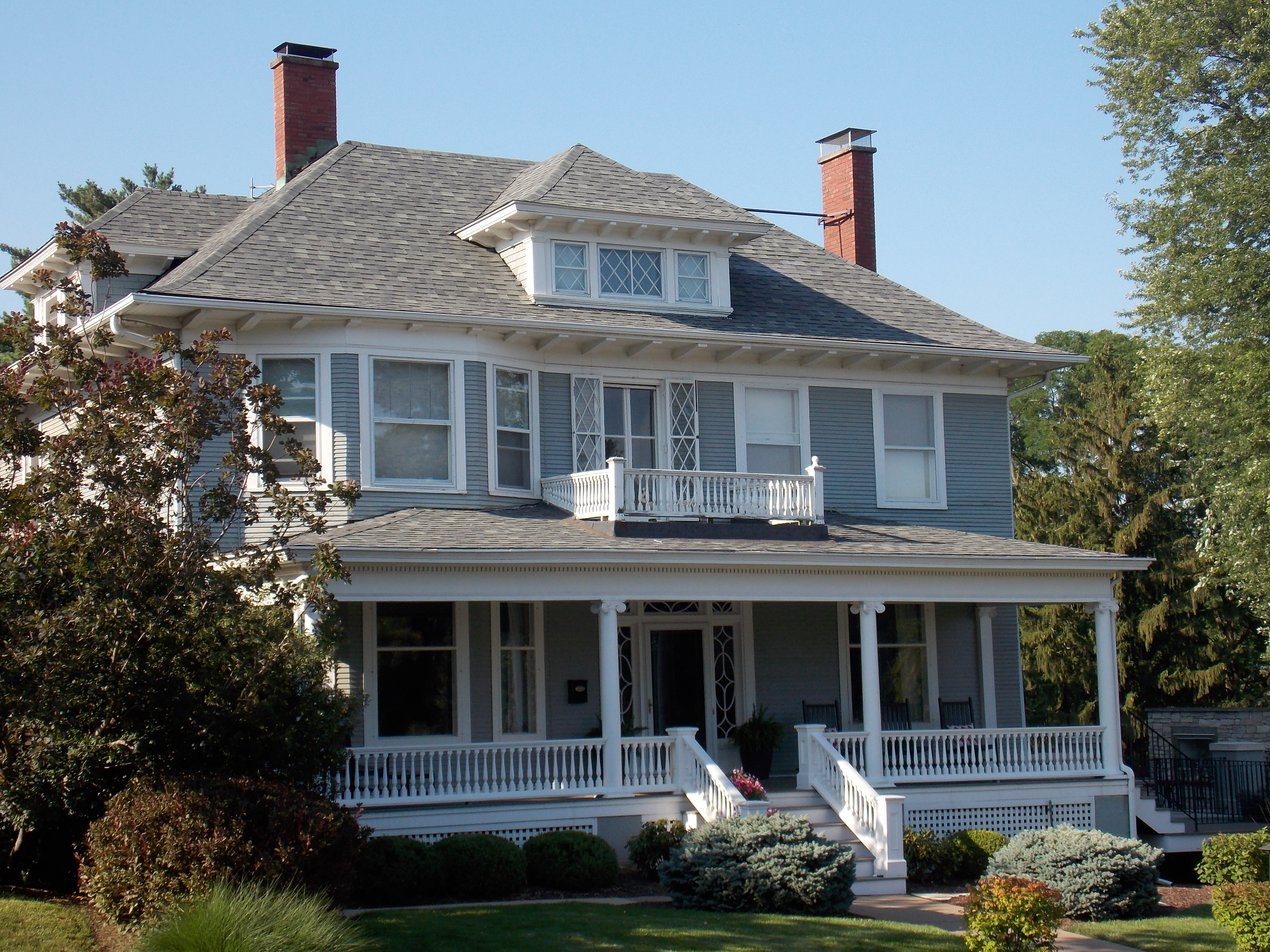 The Anna McClelland House is a contributing property in the Prospect Park Historic District in Davenport, Iowa.